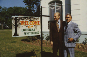 The photo contact sheet, identified as A9450 by the White House Photographic Office (WHPO), is housed at the Gerald R. Ford Presidential Library, a branch of the National Archives and Records Administration (NARA). This file is a 200 dpi photo contact sheet having images from roll of film A9450 of the August 9, 1974 - January 20, 1977 Gerald R. Ford White House Photographic Office Series A0001-A9999 and B0001-B2886 photographs. The date on the photo contact sheet is the date the roll of film was processed, not necessarily the date the photographs were taken. See table below for additional details.